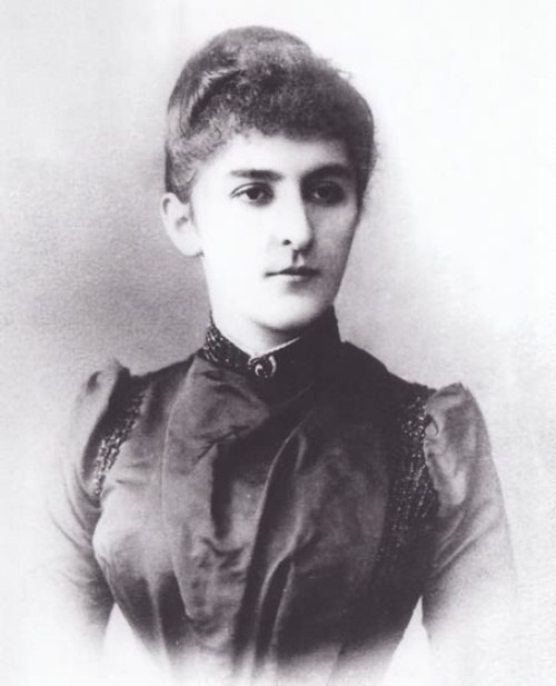 Princess Anastasia Petrović-Njegoš of Montenegro